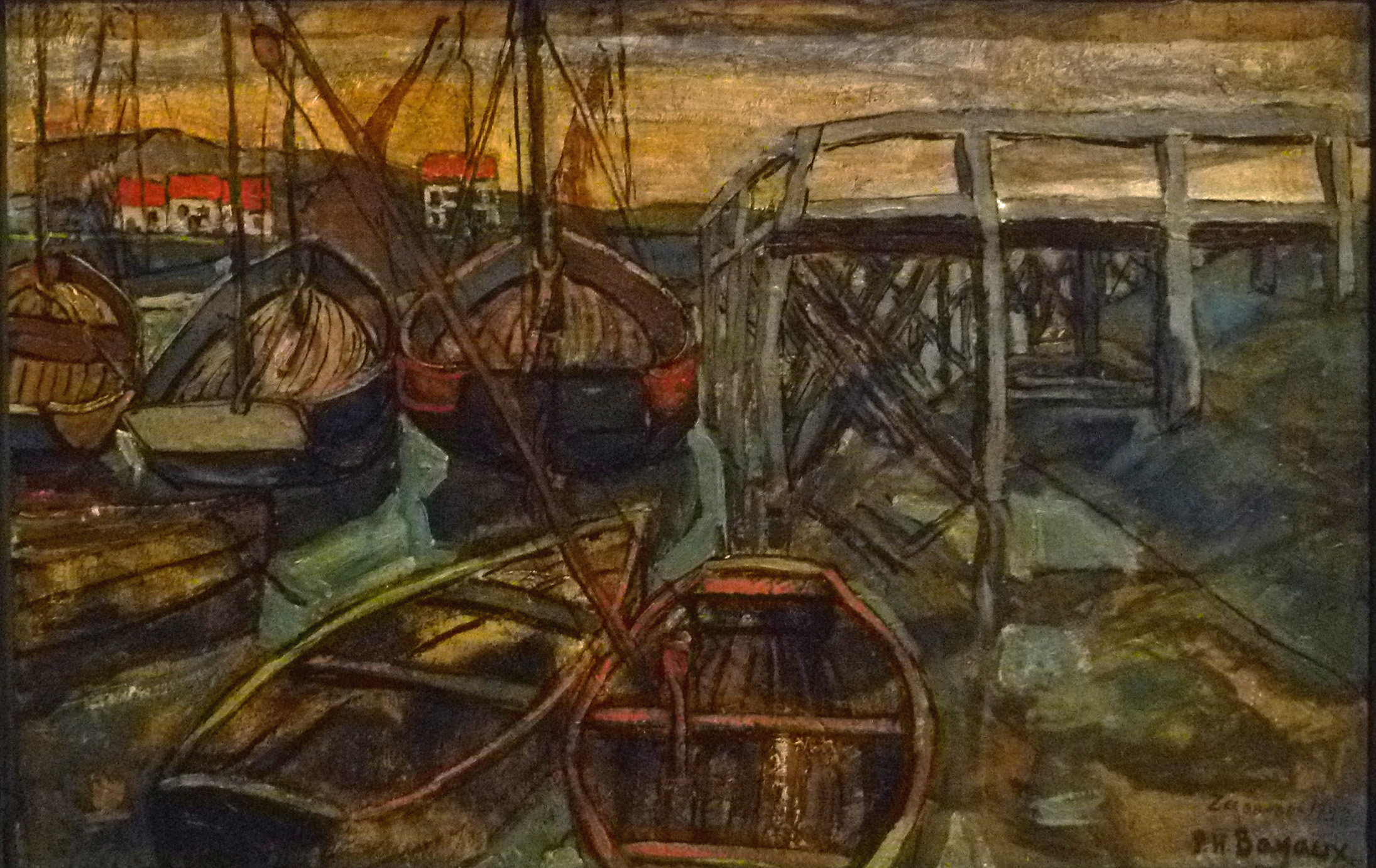 " Vissershaven te Zeebrugge (1928)" olie op doek (51 x 76 cm) door de Belgische kunstschilder Pierre Henri Bayaux (1884-1946); Gemeentelijk Patrimonium Knokke-Heist